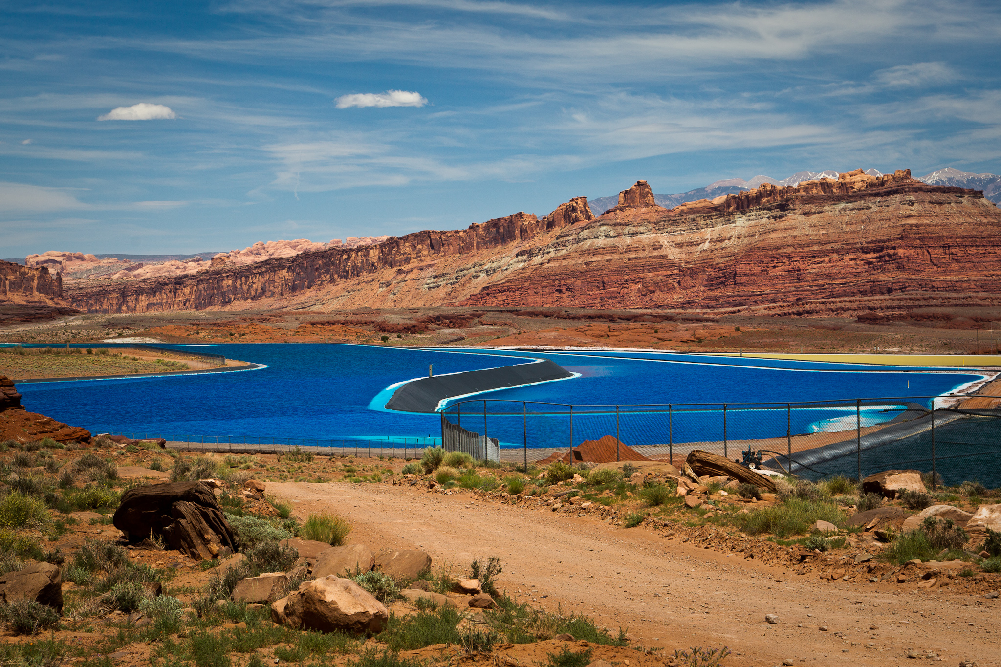 Potash evaporation ponds near Moab, Utah